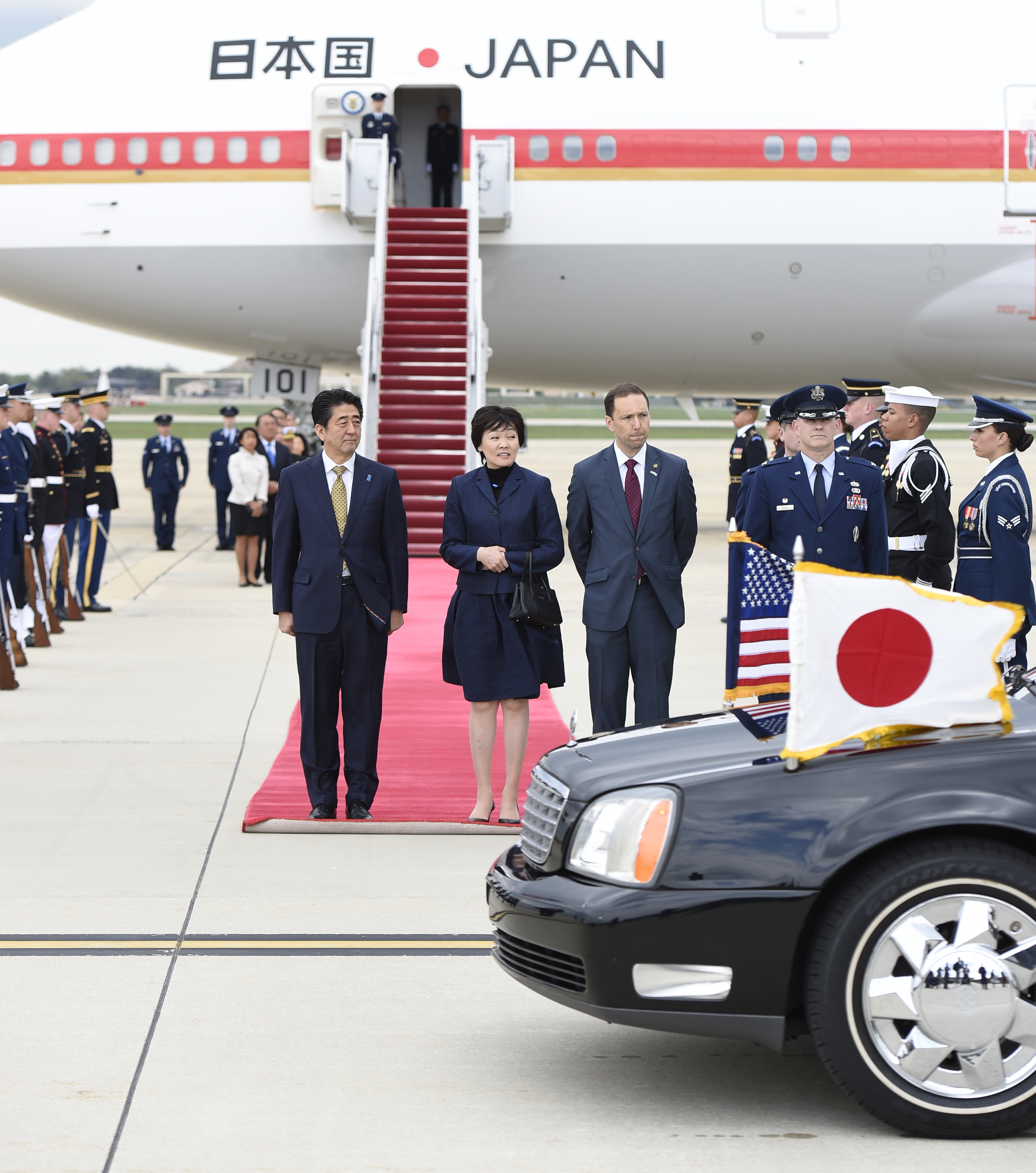 Shinzō Abe, Japanese Prime Minister, and his wife, Akie Abe, await ground transportation after arriving at Joint Base Andrews, Md., April 27, 2015. Abe is in the U.S. for a week-long visit to promote stronger military and economic ties. (U.S. Air Force photo/Airman 1st Class Ryan J. Sonnier)